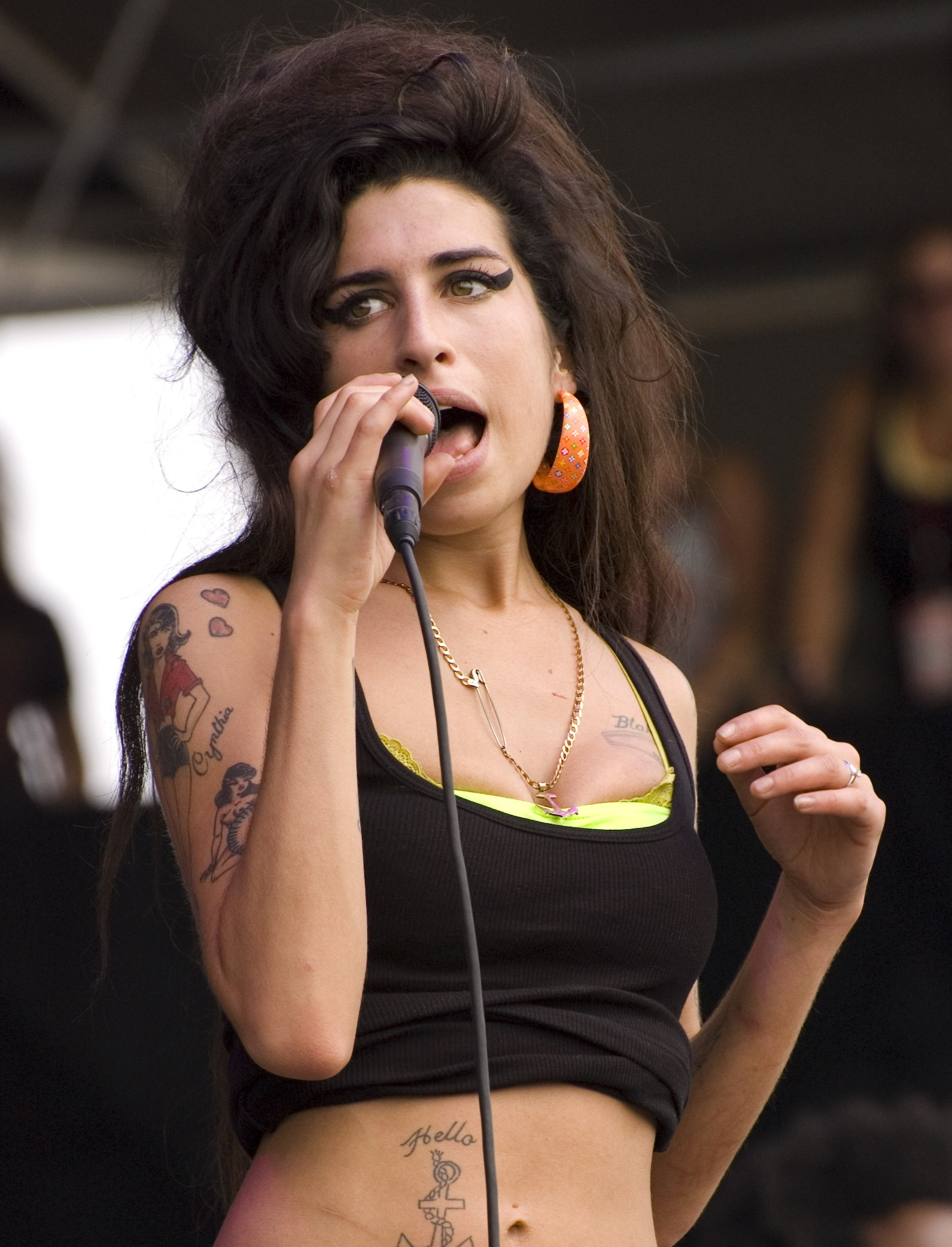 Amy Winehouse singing at the Virgin Festival, Pimlico, Baltimore, Maryland, USA on 4 August 2007.